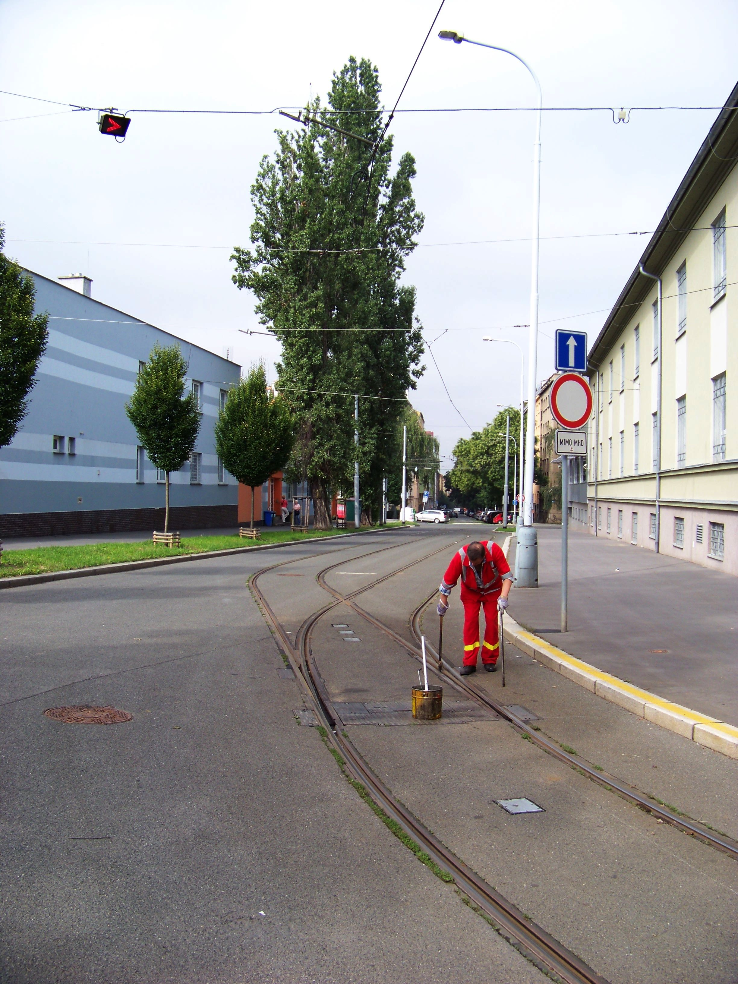 Prague-Žižkov, the Czech Republic. Biskupcova street, tram track loop, point cleaner.